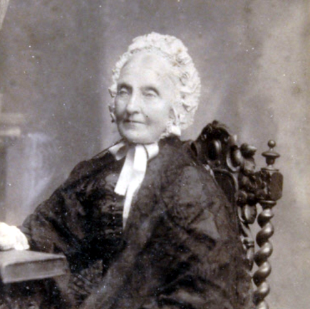 Angelica Patience Fraser in about 1910 ref NT 1251642